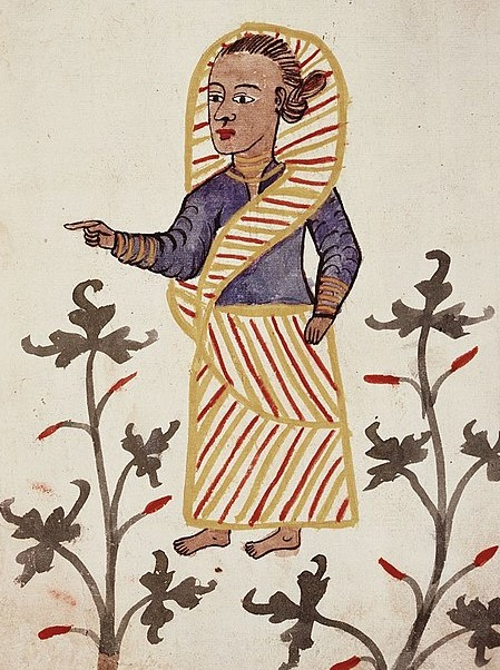 A Malukan woman in the Codex Casanatense, around 1540.